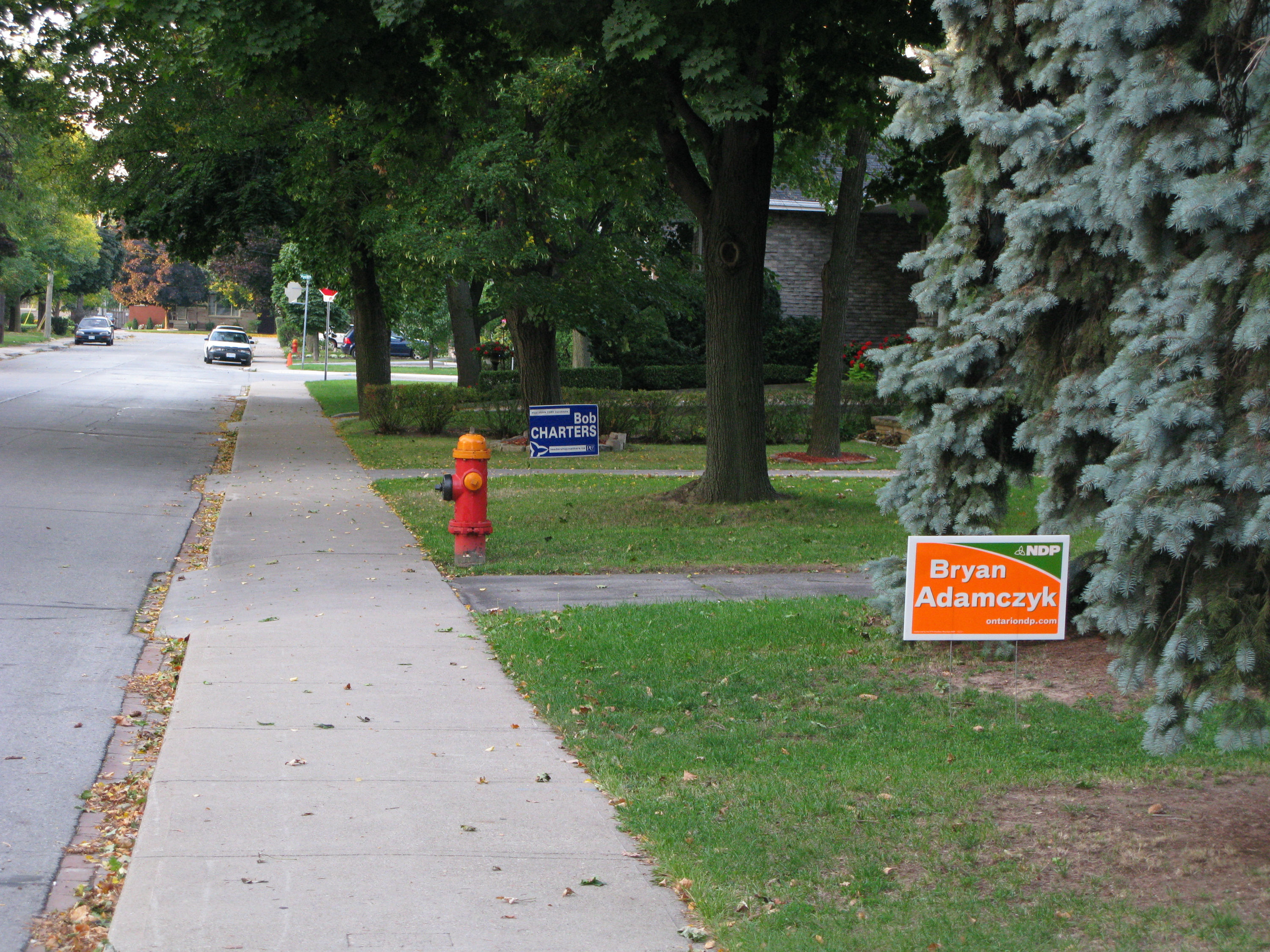 Lawn signs for the 2007 Ontario general election in Hamilton Mountain riding (Hamilton, Ontario)